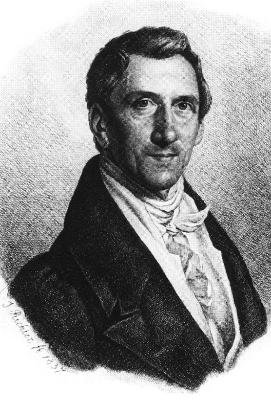 Portrait by J. Richter of the botanist Ludolf Christian Treviranus (1779–1864) from Bremen, Germany.